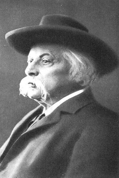 Károly Goldmark (1830–1915), Hungarian composer